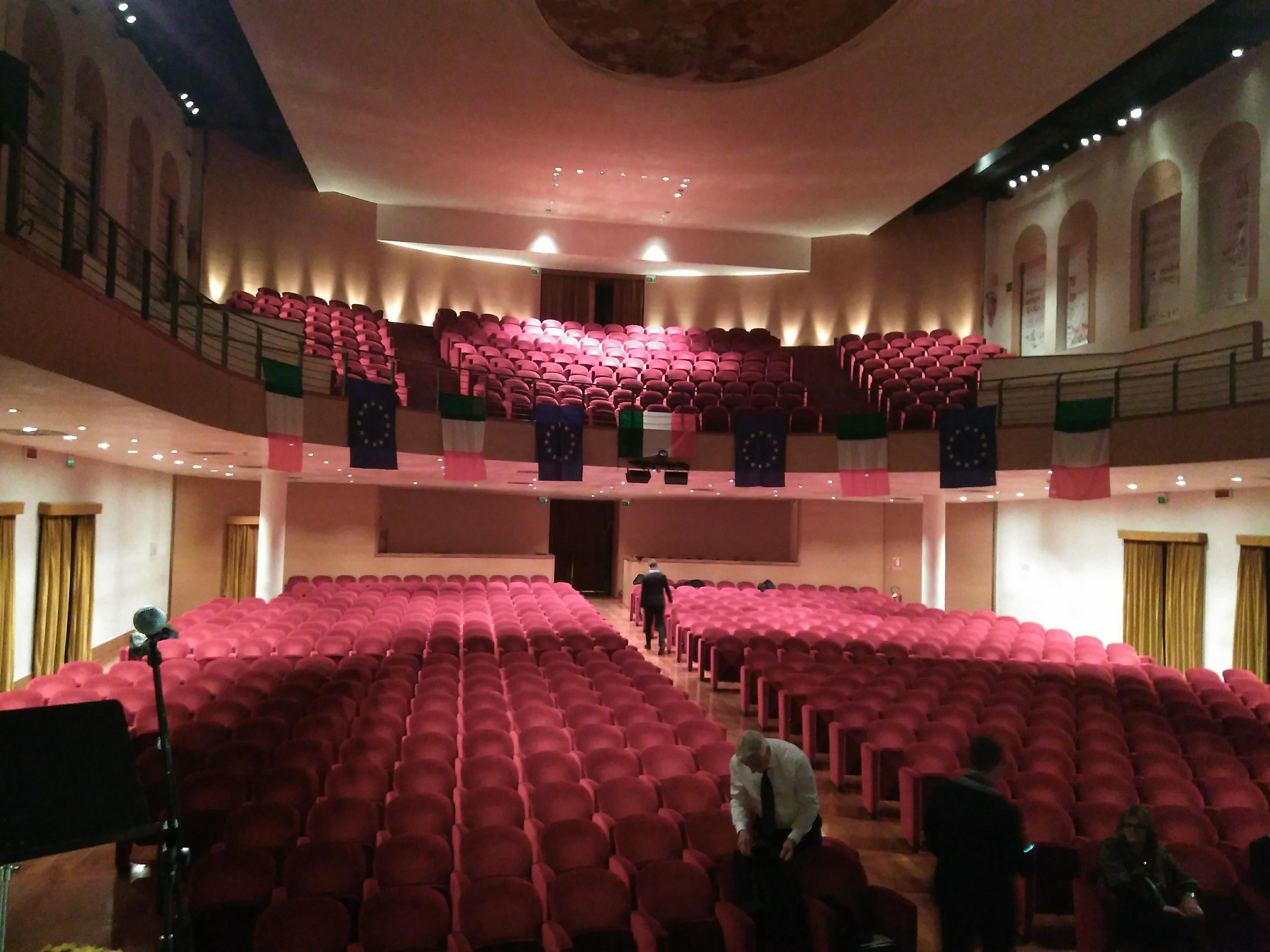 The interior of the theatre Toniolo in Mestre (Venice)